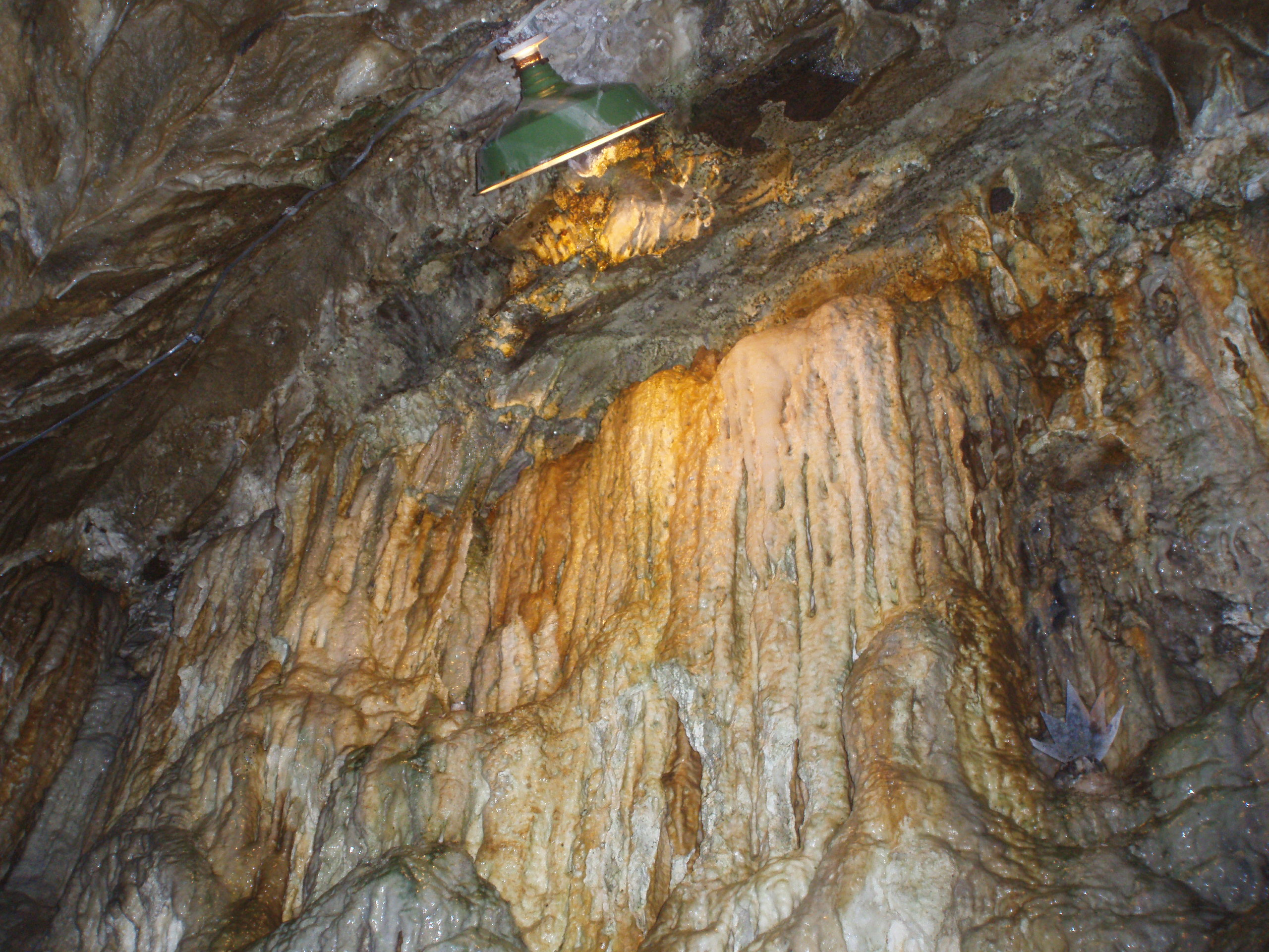 formation at Lost River Caverns, Hellertown, PA